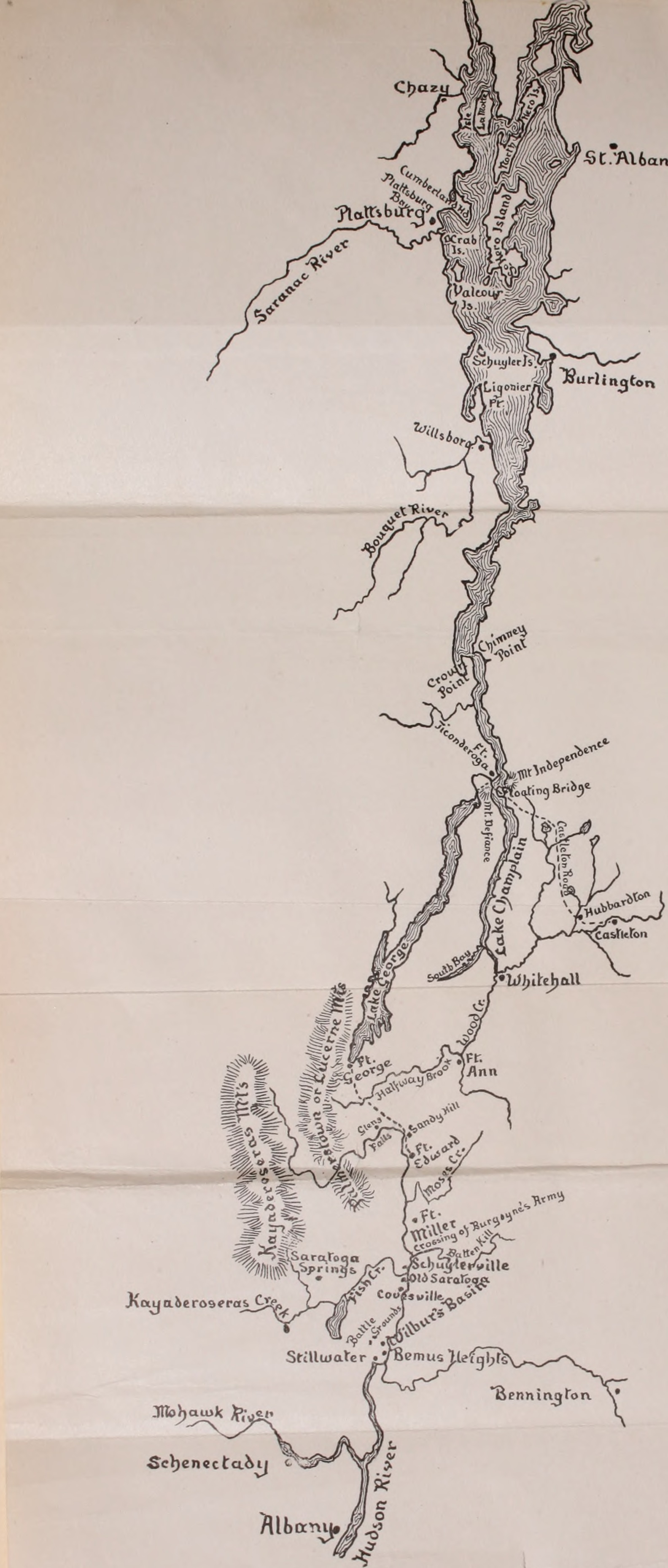 Title: Saratoga and Lake Champlain in history Year: 1898 (1890s) Authors: Seelye, Elizabeth (Eggleston), Mrs., 1858- (from old catalog) Subjects: Champlain, Lake Publisher: Lake George, N.Y., E. Seelye Text Appearing Before Image: »«« %«« Text Appearing After Image: \